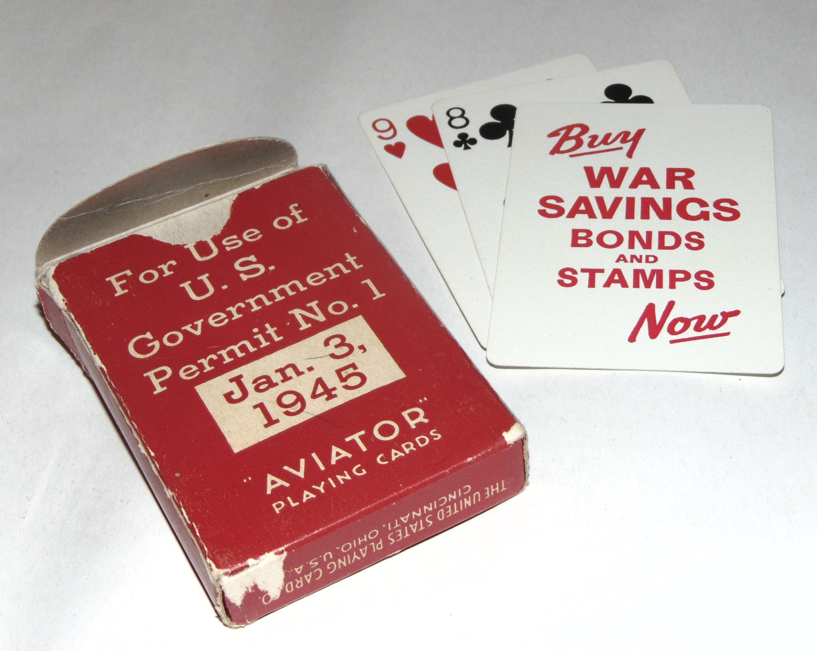 Playing cards, in red box made of carton with white text: For Use of U.S. Government Permit No. 1, Jan. 3, 1945, “Aviator” playing cards, Gift of the American Red Cross. The back of cards has the slogan "Buy war saving bonds and stamps now!" Photographed in the collection of the National Liberation Museum 1944-1945, the Netherlands, archive number 2.2.1033